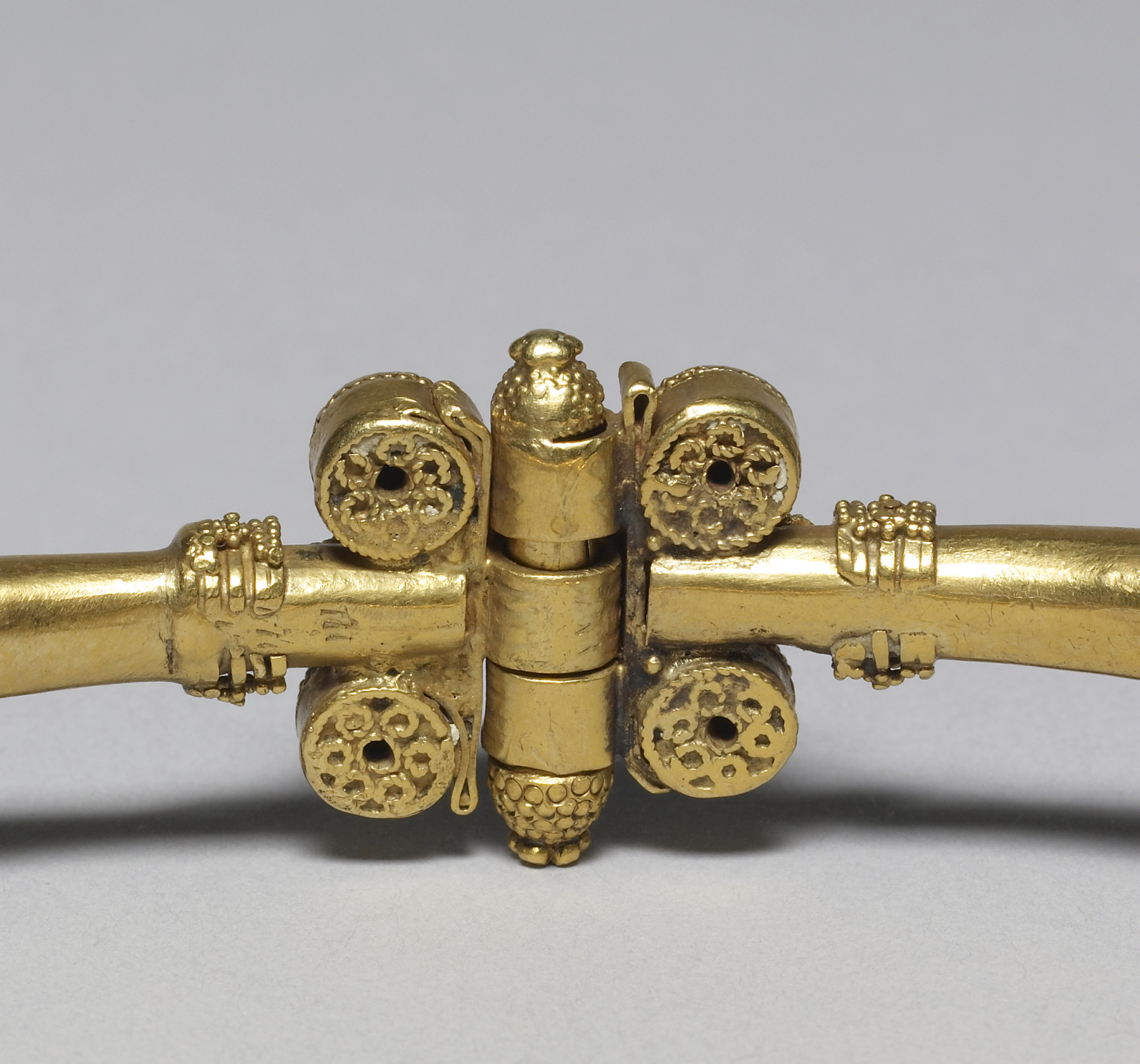 This superb tubular bracelet closes with a clasp decorated with granulation--a hallmark of Hunnish craftsmanship--around a central round garnet. The backs of the hemispheres are decorated with a filigree. While Hunnish women also wore jewelry, the large size of this bracelet suggests it would have been worn by a man, high on the arm.